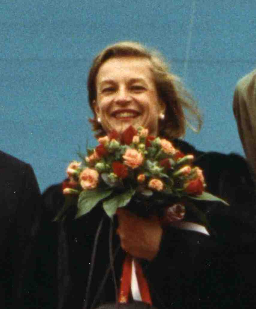 From the inauguration of Magleby Mærsk in 1990. Mrs. Anne Marie Wessel, wife of the then Danish Prime Minister Poul Schlüter, was the ship’s Godmother.